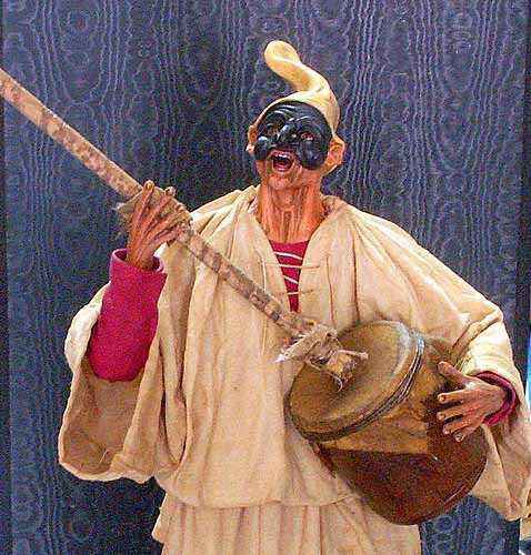 Unsigned ceramic of the Neapolitan folk-figure Pulcinella, playing the putipù.